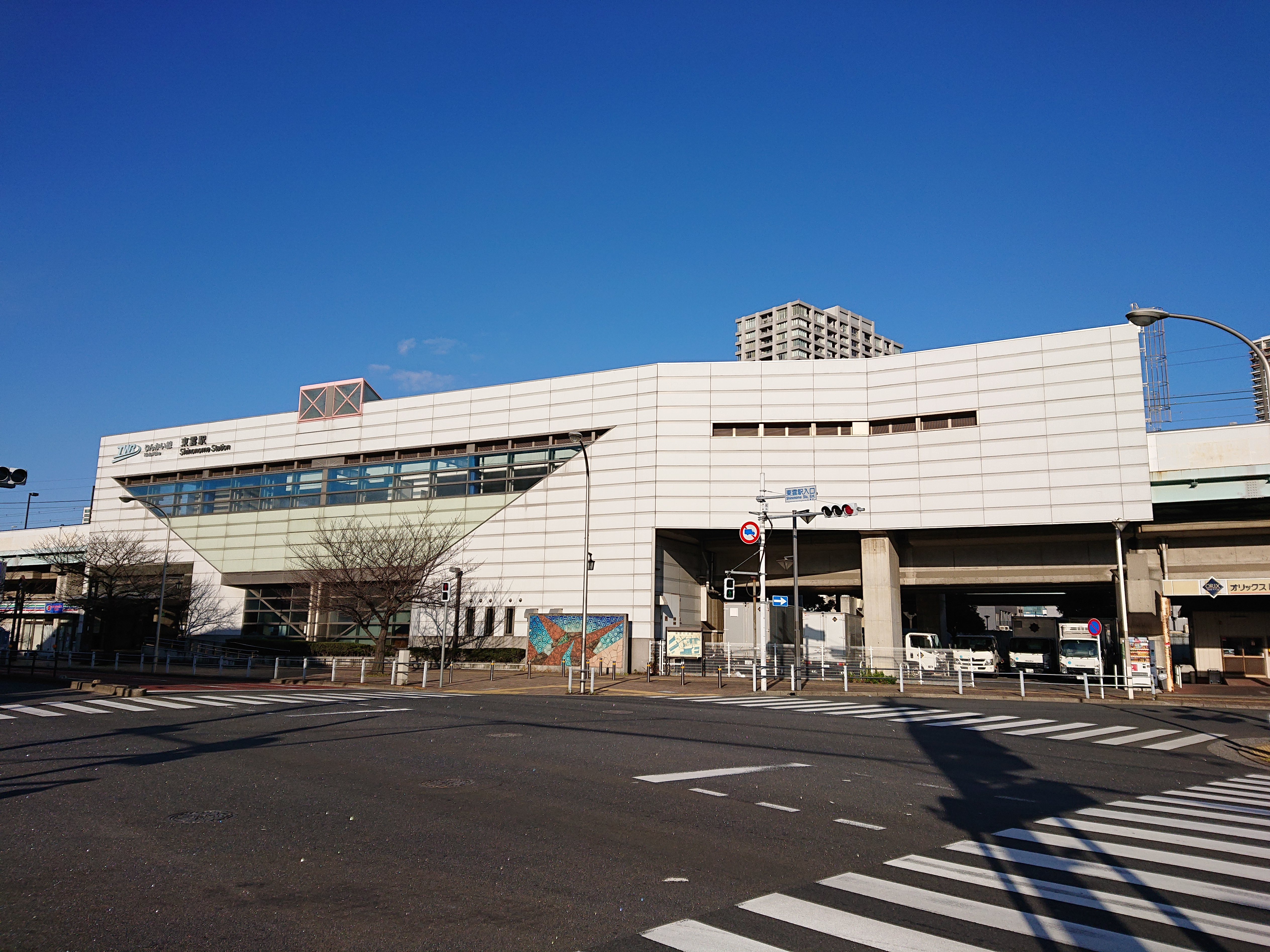 Shinonome Station, located at 2-8-10 Shinonome, Koto, Tokyo, Japan